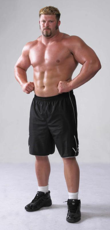 Jesse Marunde - a strength athlete from the United States.